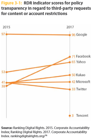 Ranking Digital Rights indicator scores for policy transparency in regards to third-party requests for content or account restriction, UNESCO's World Trends Report